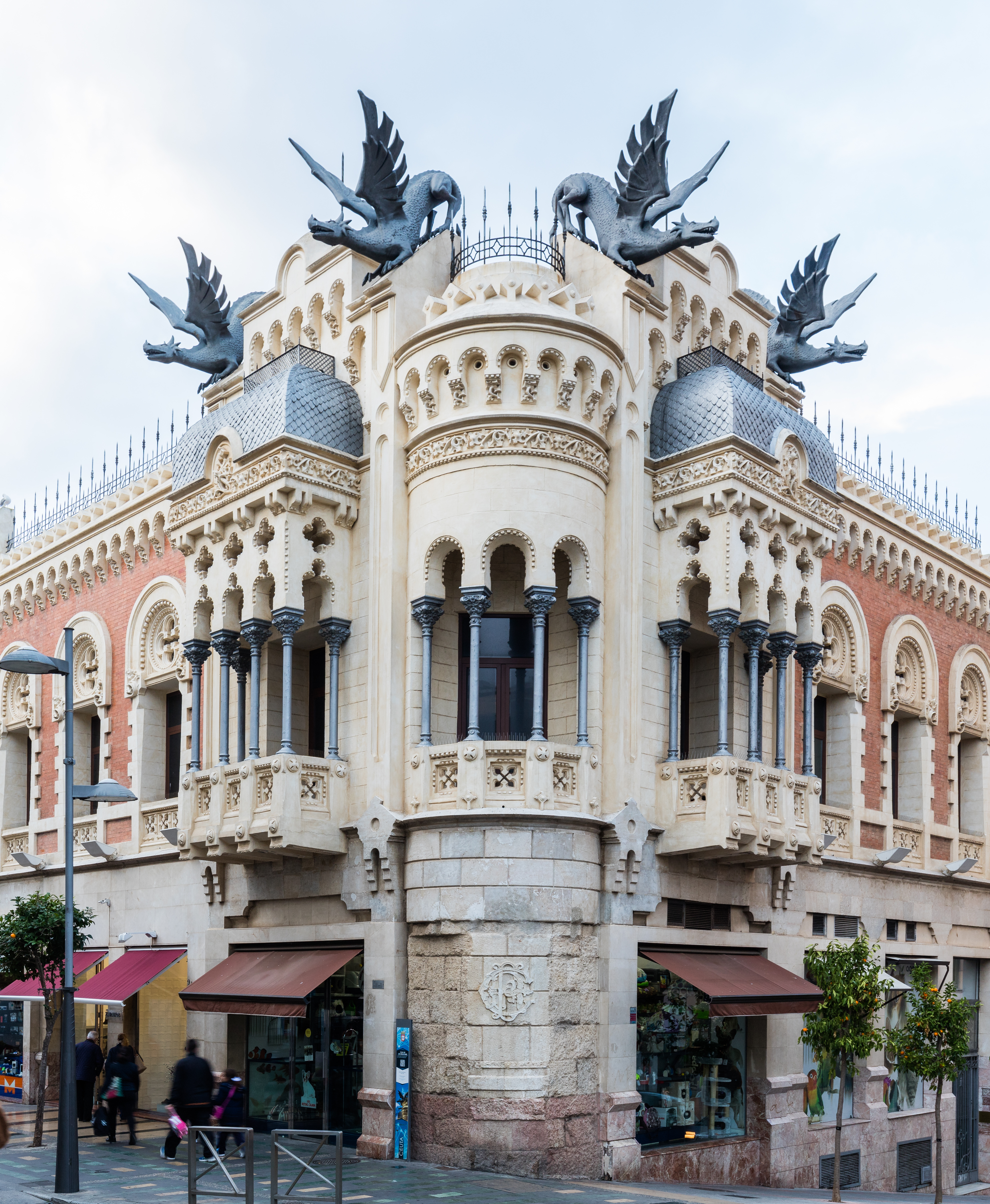 Casa de los Dragones ("House of Dragons"), Ceuta, Spain